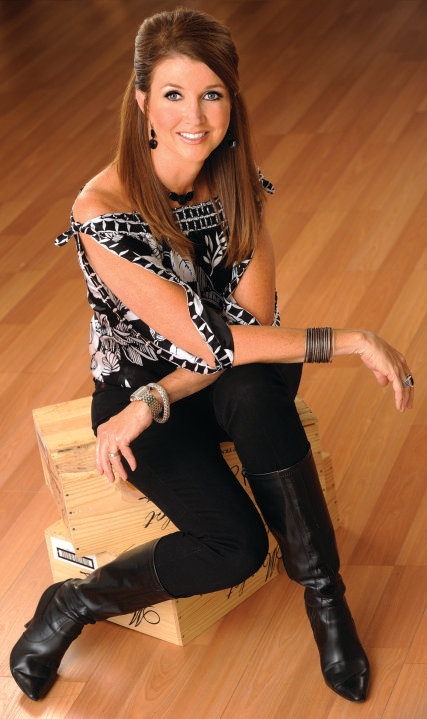 This picture is used by permission from TNA Wrestling.